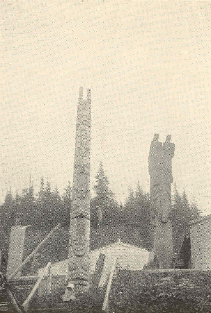 Totems at Kasaan Village Subject: Kasaan (Alaska), Totem poles--Alaska Geographic Subject: United States--Alaska--Kasaan Tag: People